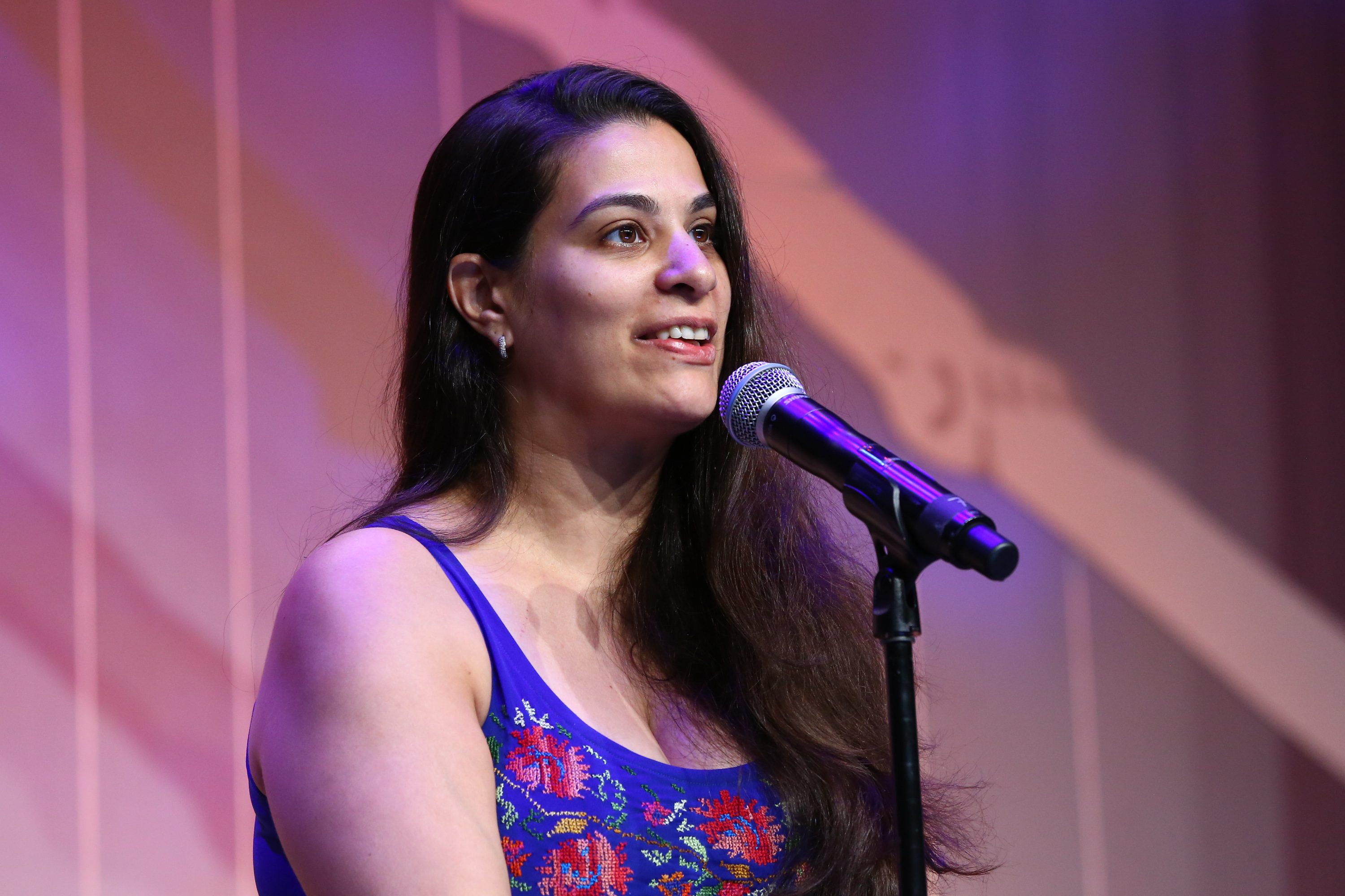 ConnectMeetings 2015 Connect and Connect Sports Marketplace. Photo credit Chris Savas